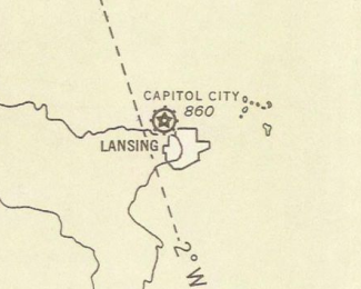 1935 NOAA Sectional Chart, Capital Region International Airport, Lansing, Michigan (then Capital City Airport)